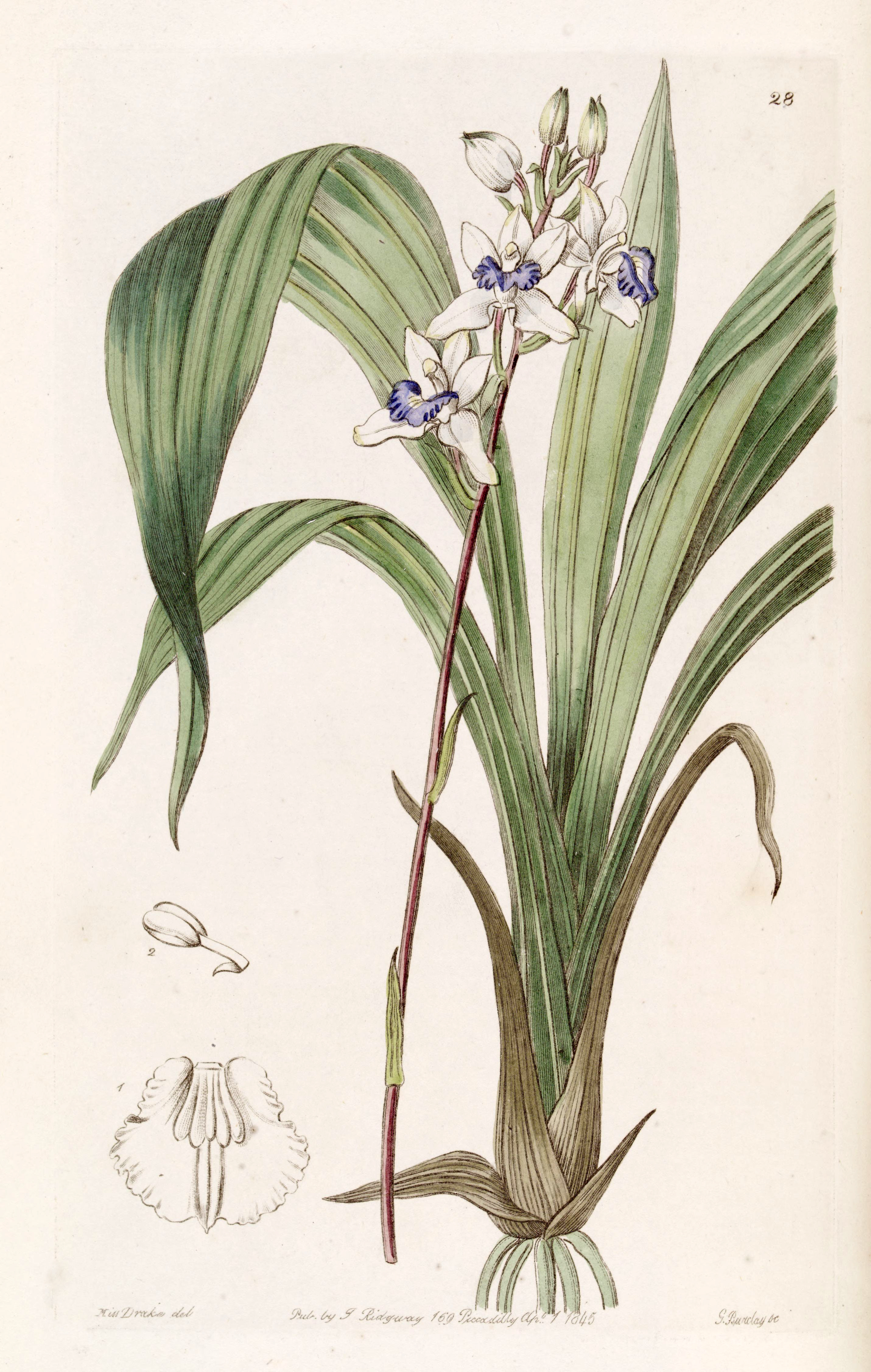 Warreella cyanea (as syn. Warrea cyanea)